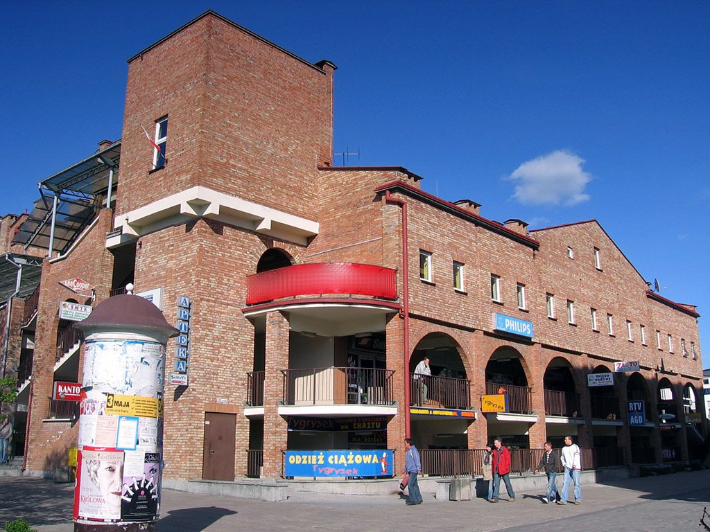 City of Ostroleka (Poland), "Kupiec"- the department store.